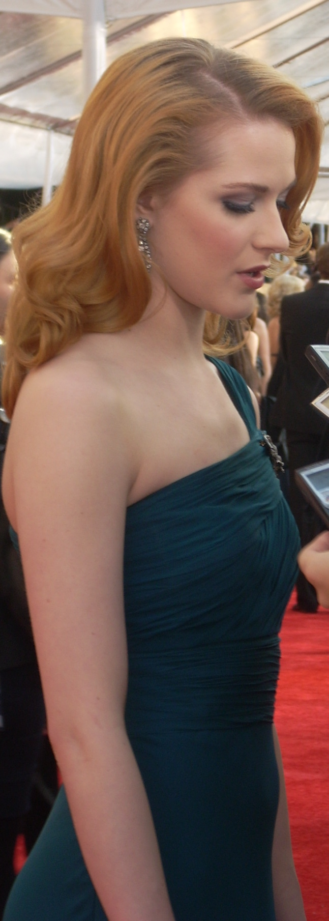 Actress Evan Rachel Wood at 15th Screen Actors Guild Awards, Shrine Auditorium, Los Angeles.